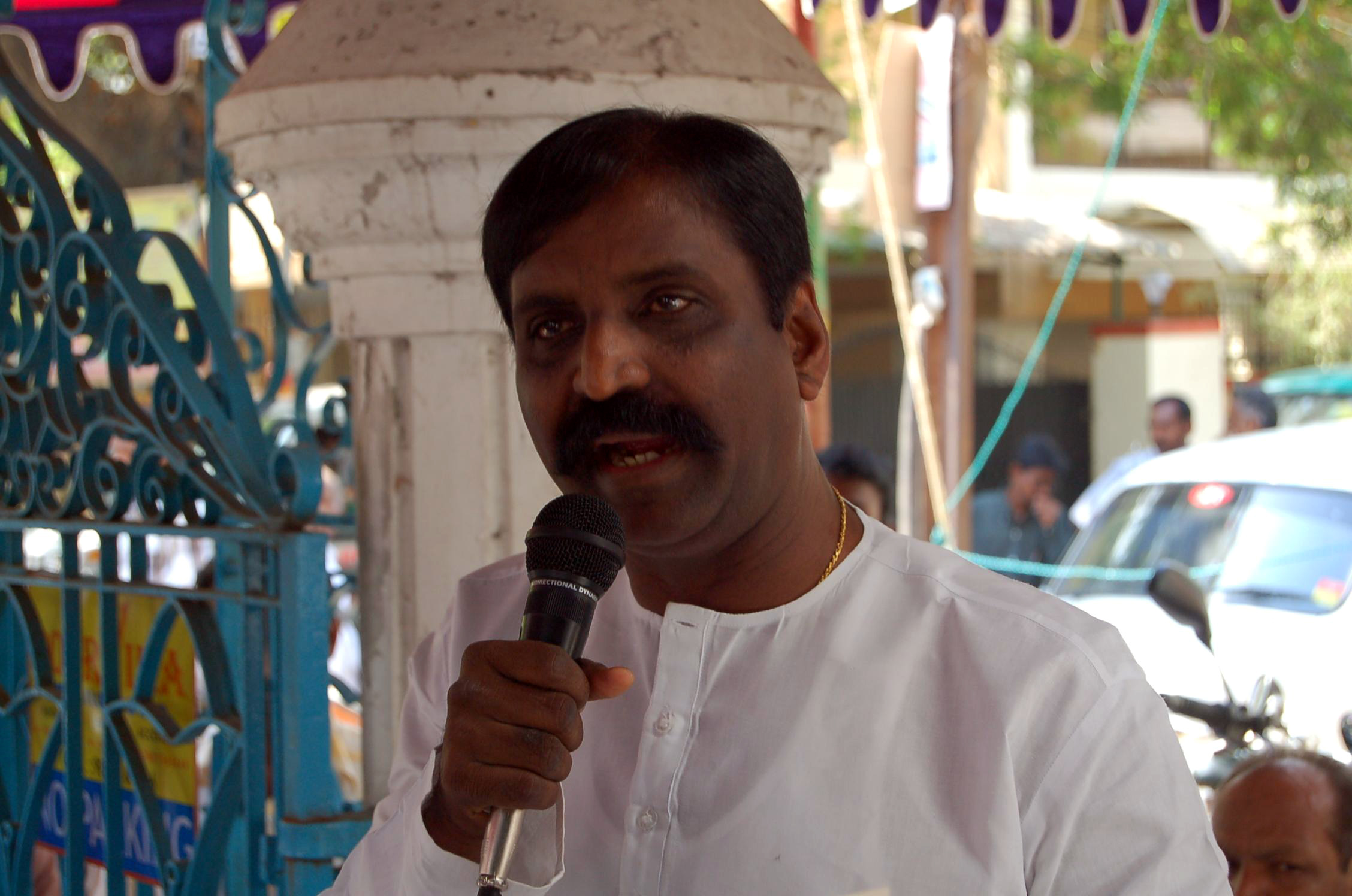 Vairamuthu alaigal book shop